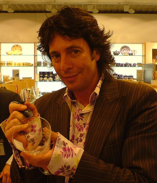 Went shopping to John Lewis in High Wycombe and bumpbed into this fella. He was engraving names into his latest collection of designer glassware. He was just as nice in real life as you have seen him on the TV. We got someone a nice Christmas present with their name on it, courtesy of LLB.